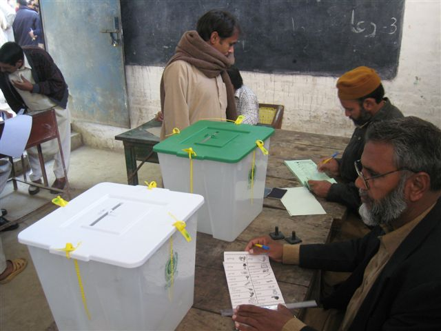 Voting process (18 february 2008) in Lahore